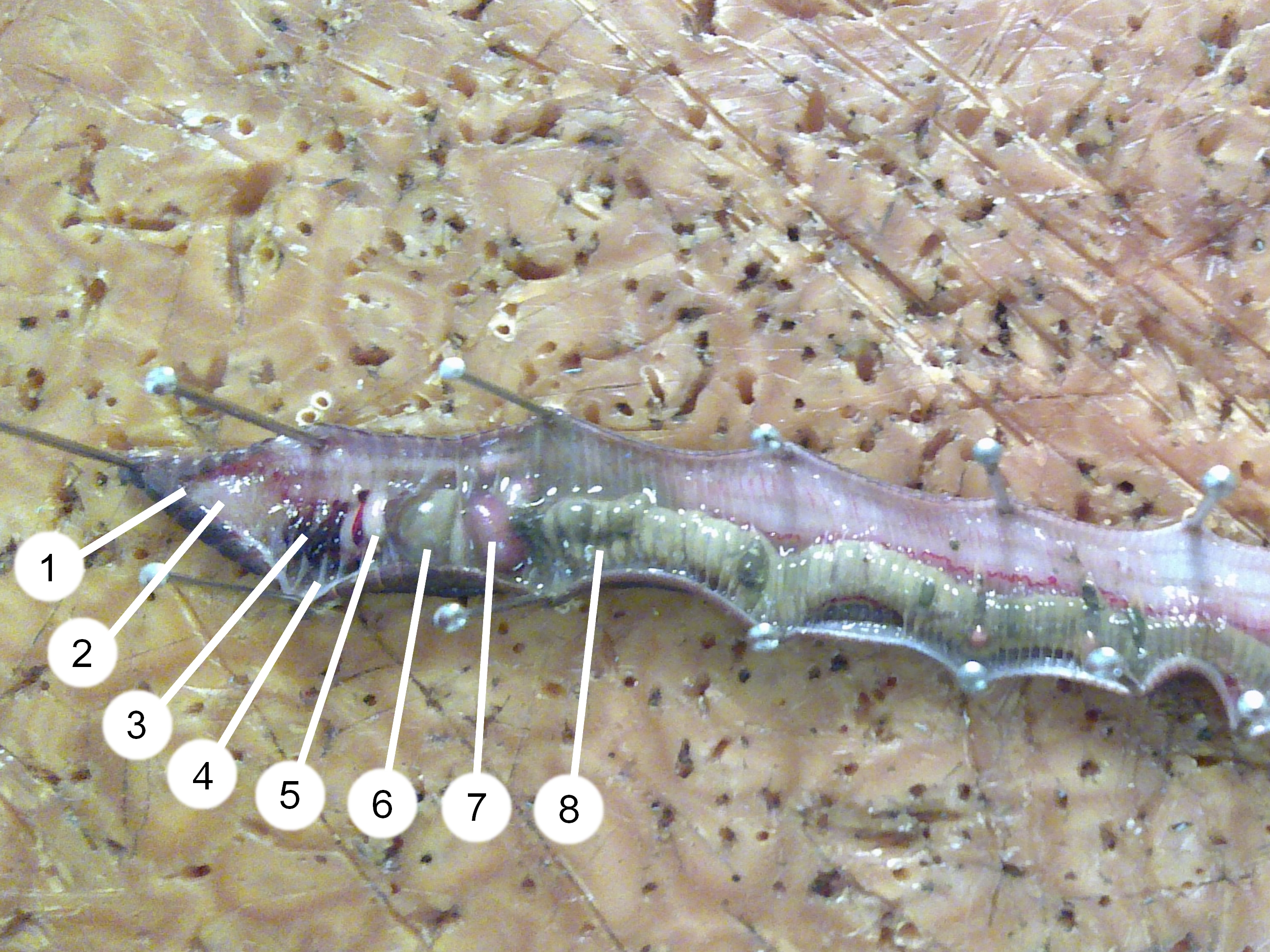 General earthworm anatomy: 1 - cerebral ganglion, 2 - pharynx, 3 - heart, 4 - ?, 5 - seminal vesicles, 6 - crop, 7 - gizzard, 8 - intestine